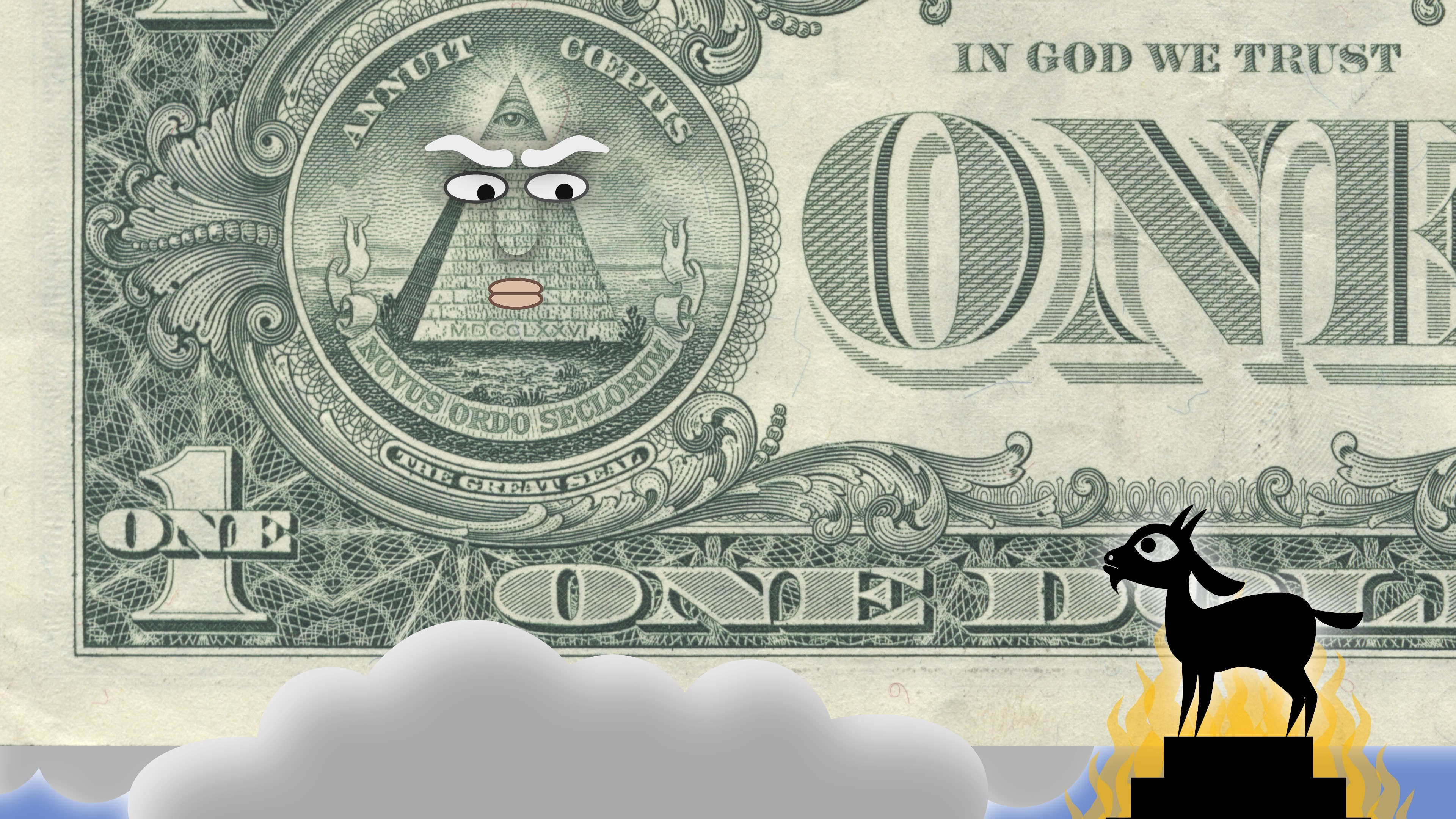 Still from the 2018 animated feature film Seder-Masochism by Nina Paley.